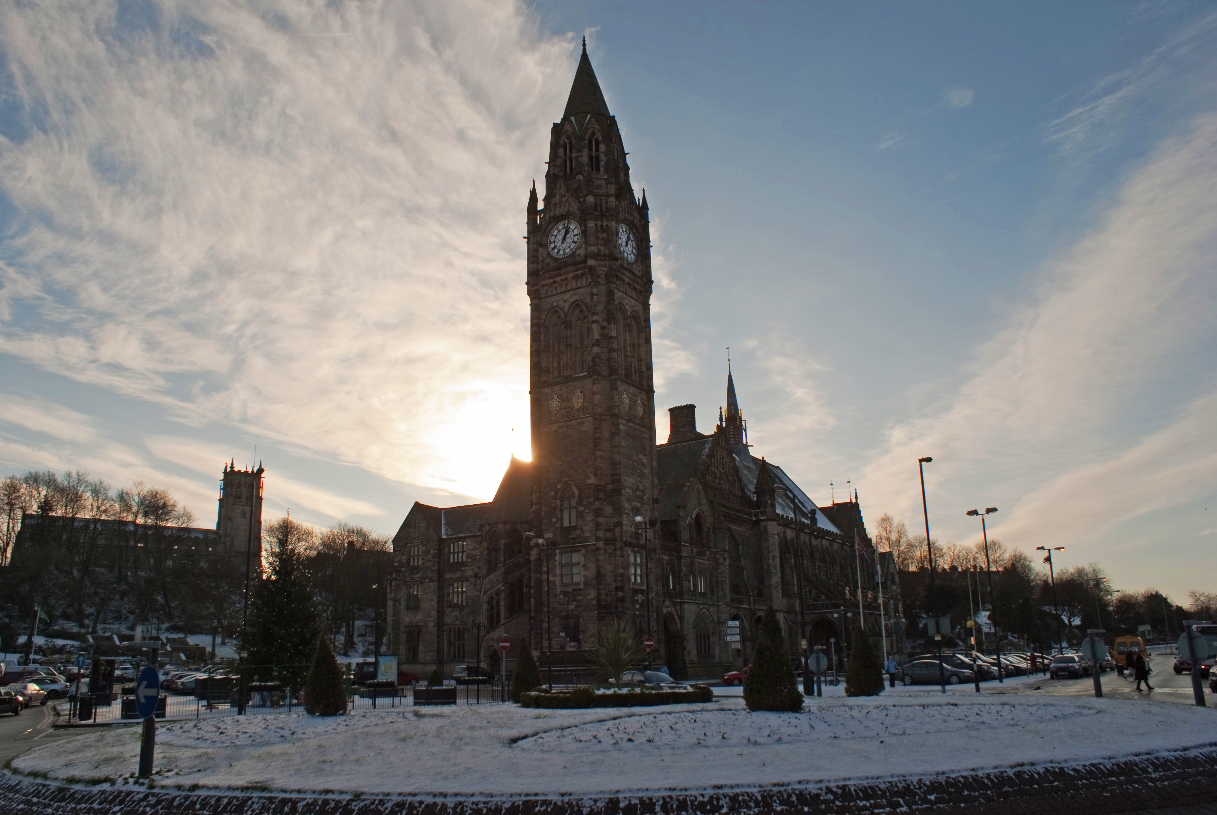 Rochdale Town Hall, in Rochdale, Greater Manchester, England.